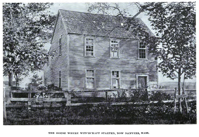 "The House Where Witchcraft Started, Now Danvers, Mass.", photographer unknown